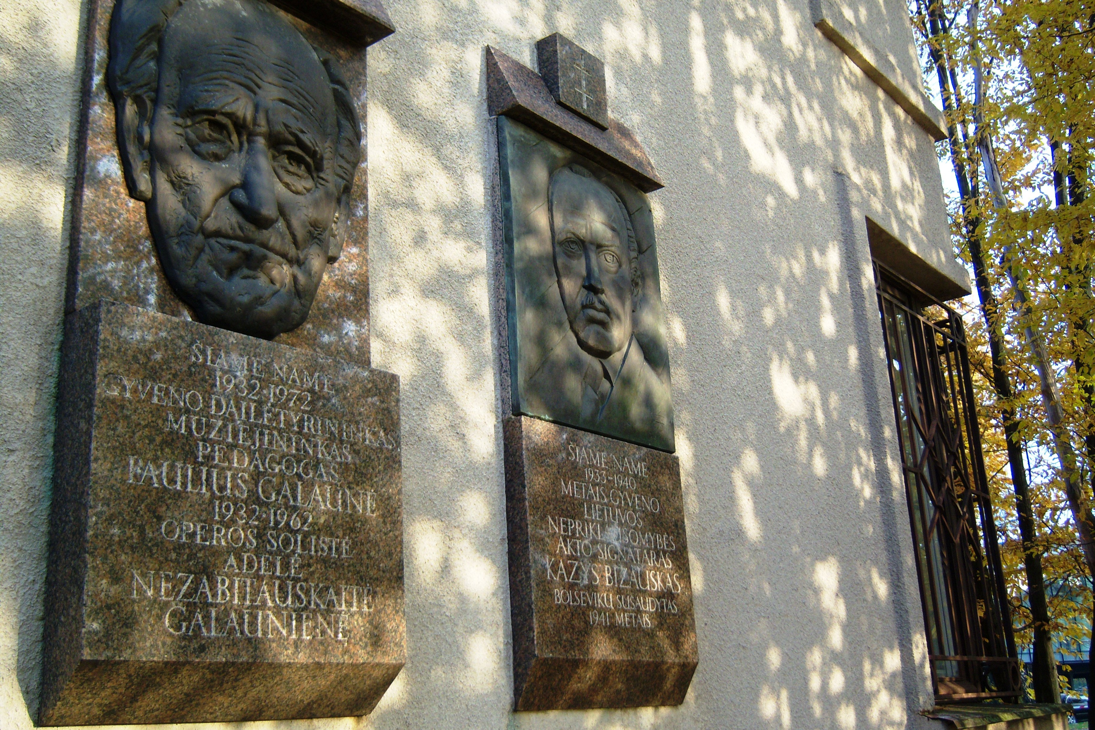 Memorial plaques on a house, Vydūno Alley 2, Kaunas, Lithuania: artist, educator Paulius Galaunė lived here 1932-1972; opera singer Adelė Nezabitauskaitė Galaunienė lived here 1932-1962; signatory of the Act of Independence of Lithuania Kazys Bizauskas lived here1933-1940.